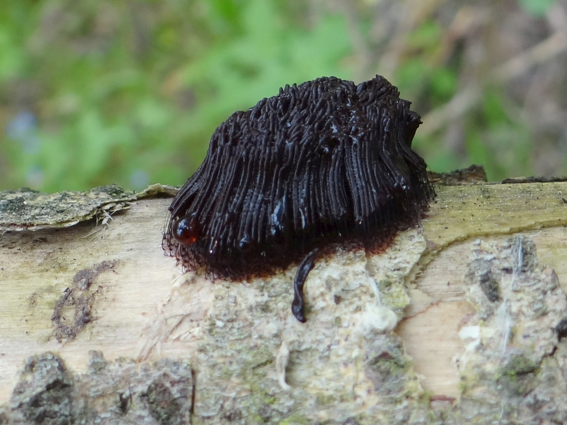 Stemonitis axifera (location: Poland, Pogórze Wiśnickie, Rajbrot)